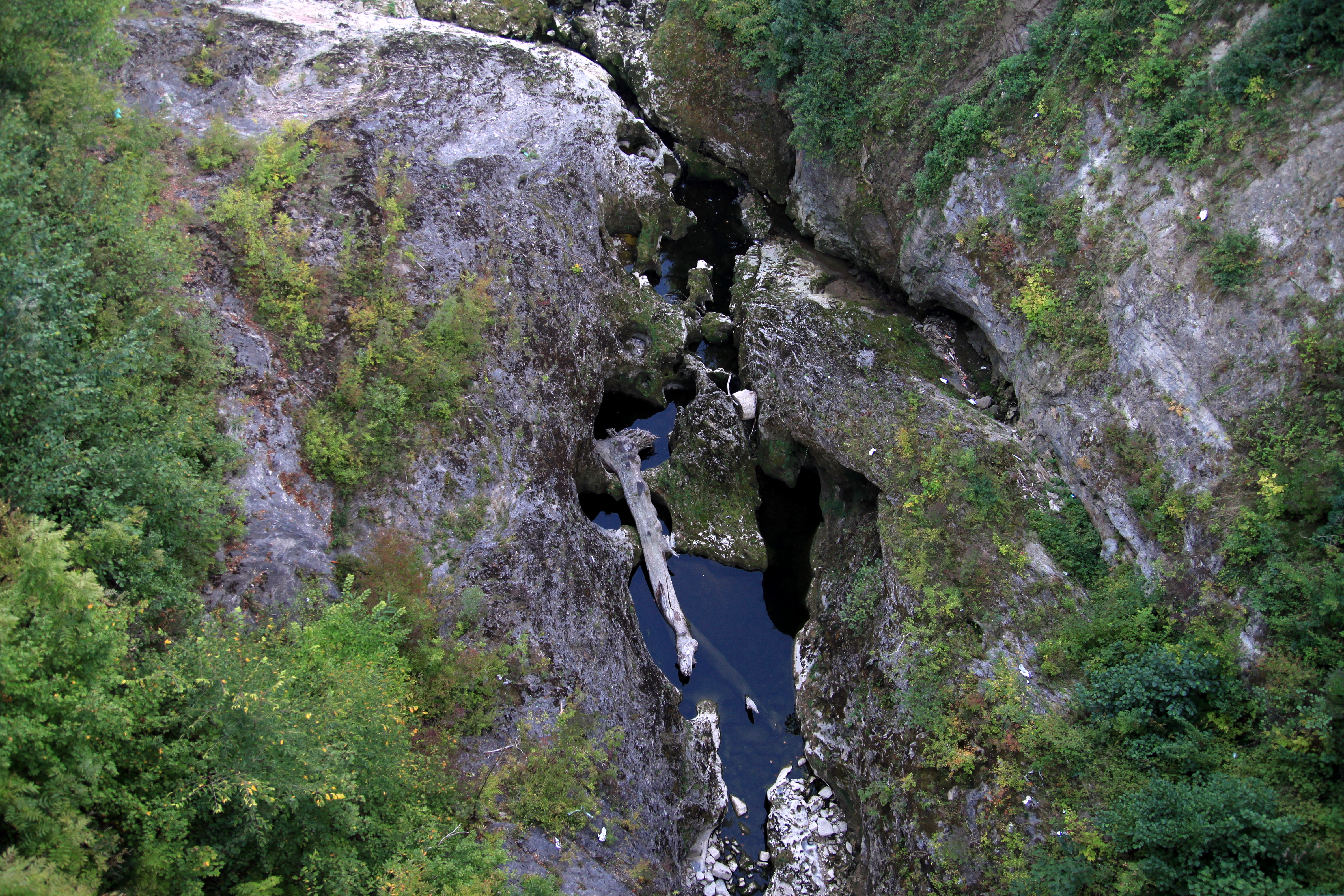 Đulin ponor (abyss), Ogulin - Croatia.